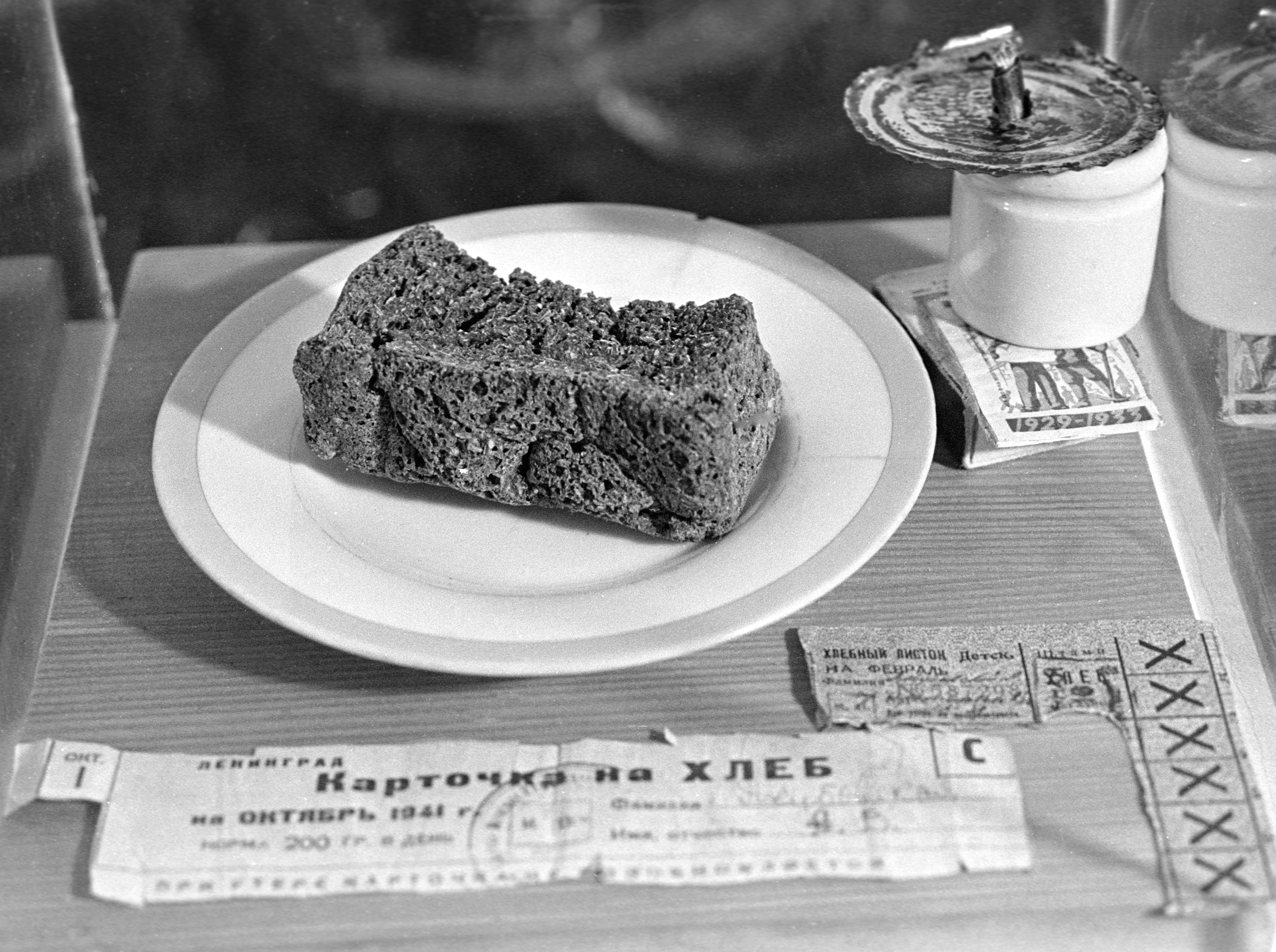 “Baking History Museum”. A slice of bread baked during the Leningrad blockade, and WWII bread ration cards are exhibited in the Baking History Museum, St. Petersburg